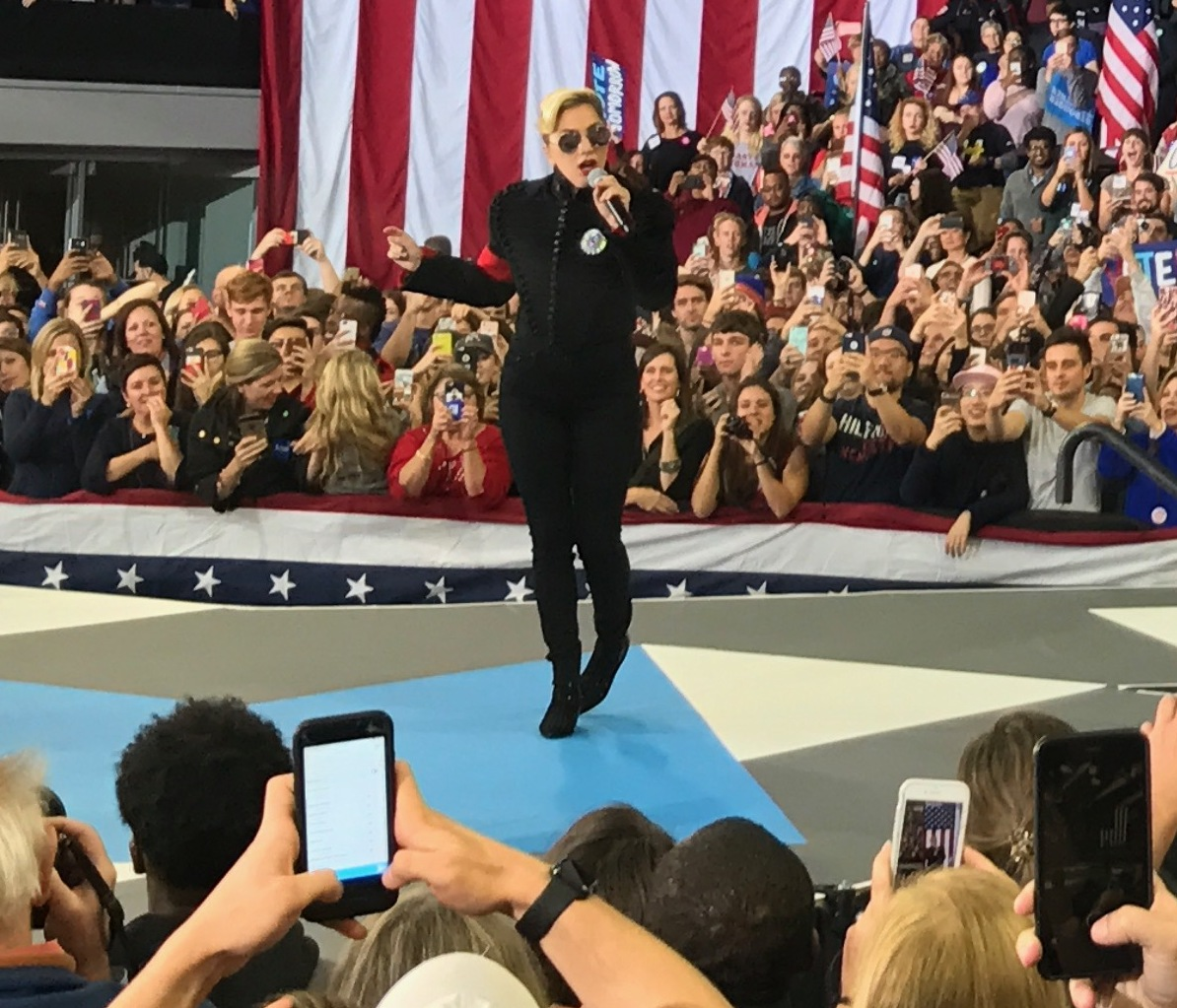 Attempting to stop Armageddon